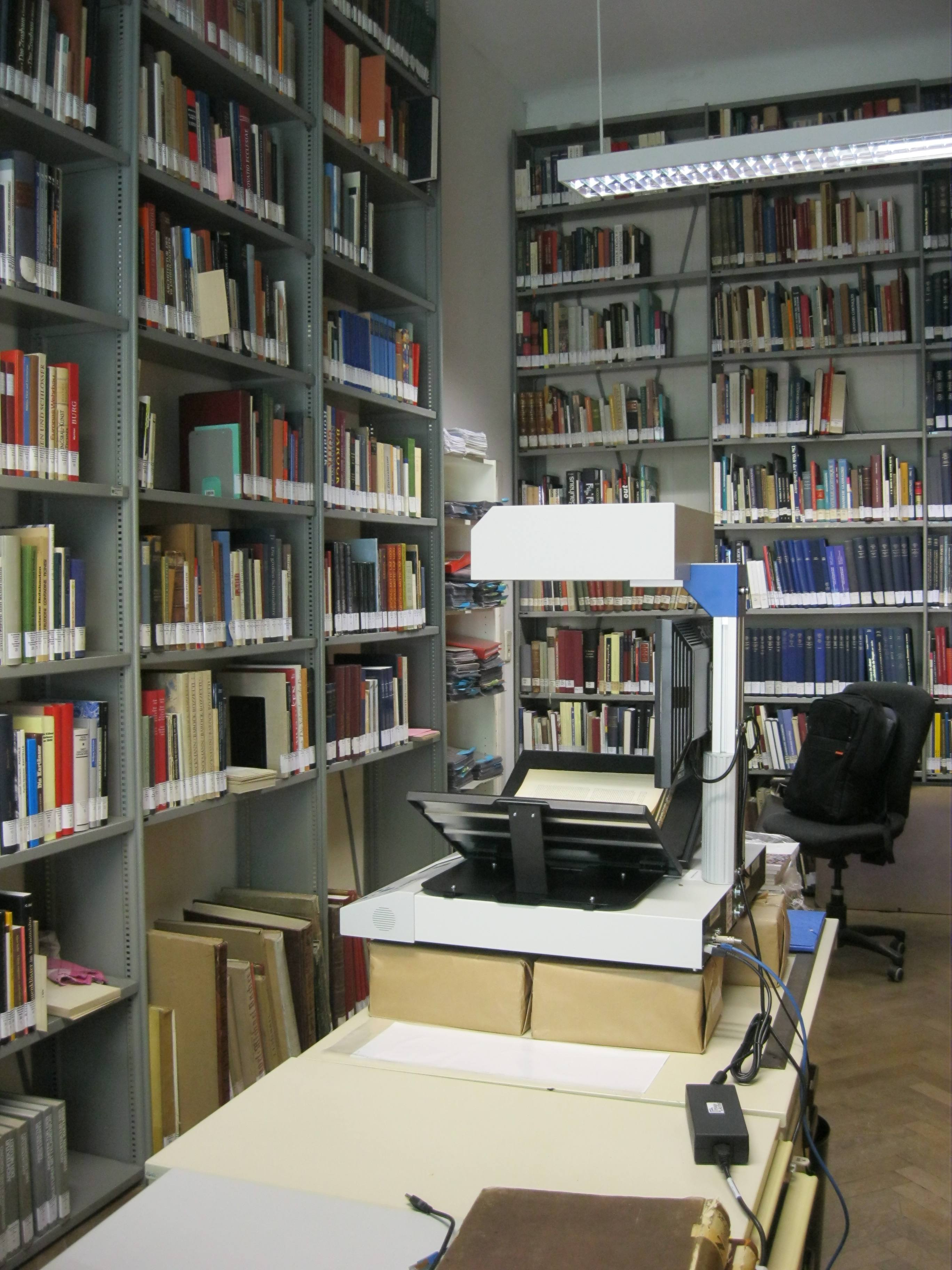 Scan-Projekt CPB-Bookscanner. . This Picture shows the work place woth the Bookeye 4 in the former private residetiial area of Emperor Franz II.. Later it was the private residentiial area of Kronprinz Rudolf. This office was part of the kttchen at this times. This office contains apprx. 4.500 books.and document folders, as a part ofl of 90.000 books from the library of the Office of Cultural Heritage of Austria.